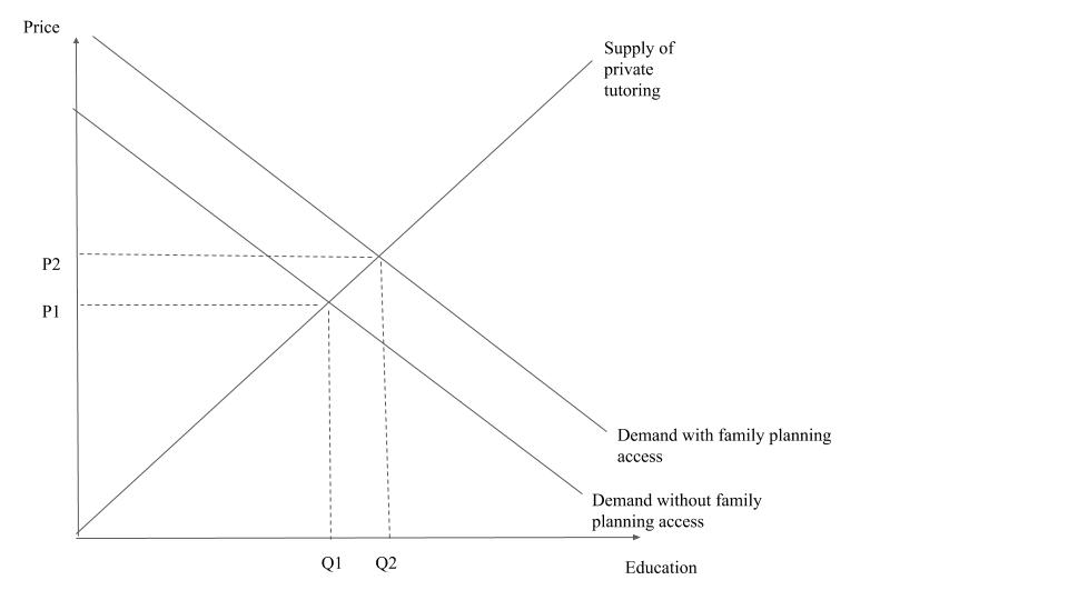 Demand for Private Tutoring with and without access to family planning